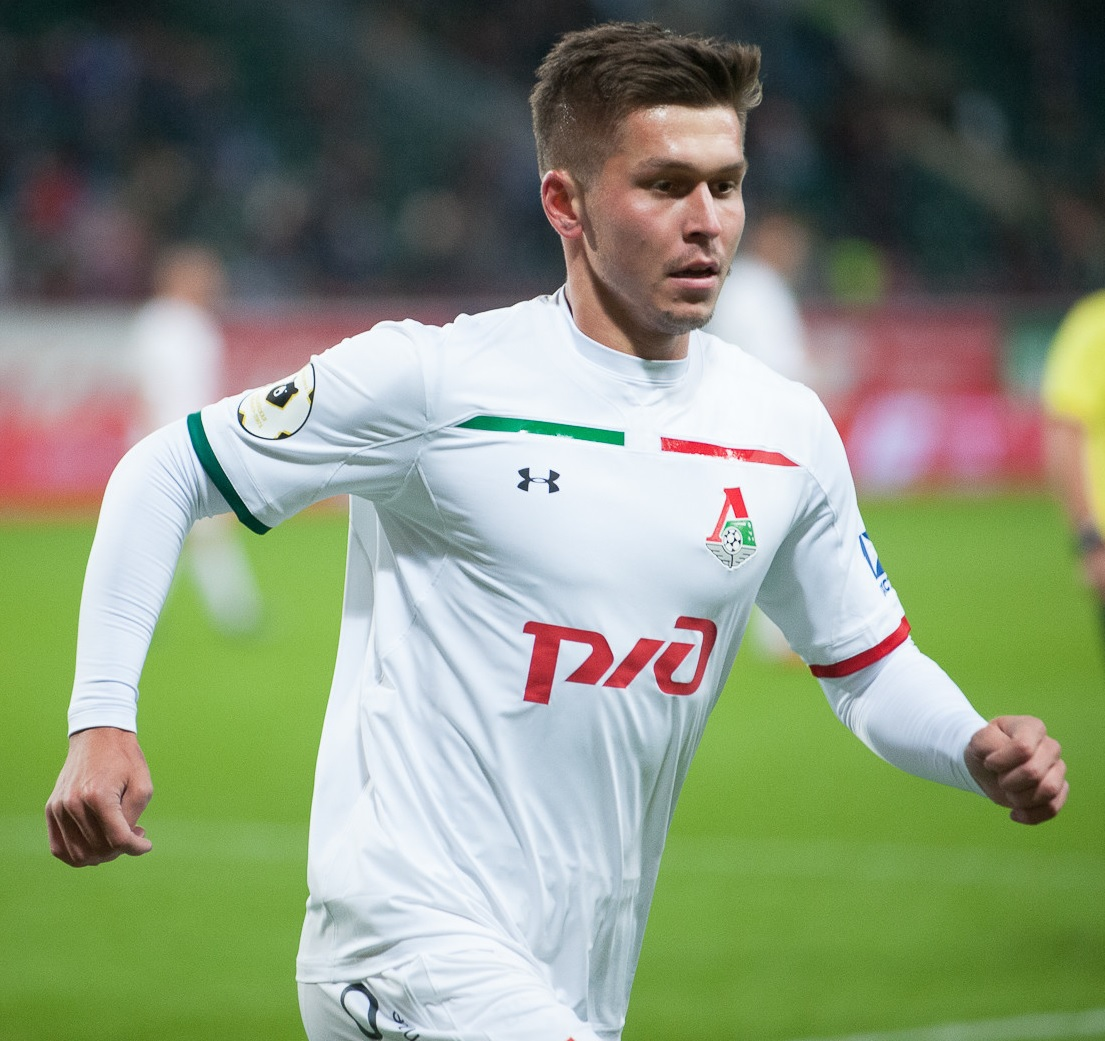 Rifat Zhemaletdinov with FC Lokomotiv Moscow in a game against FC Akhmat Grozny.